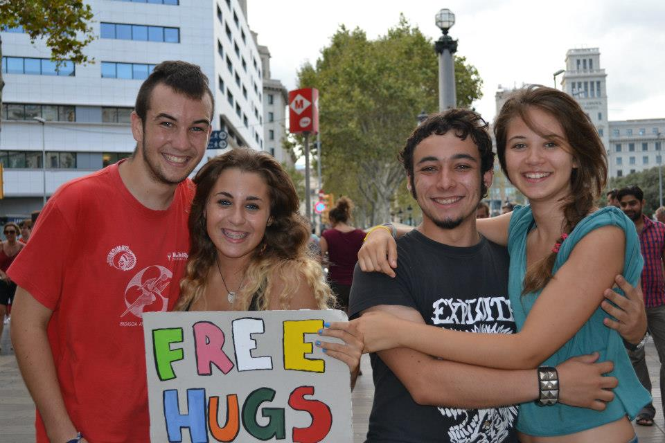 Free hugs in Barcelona: basque boys and catalan girls.